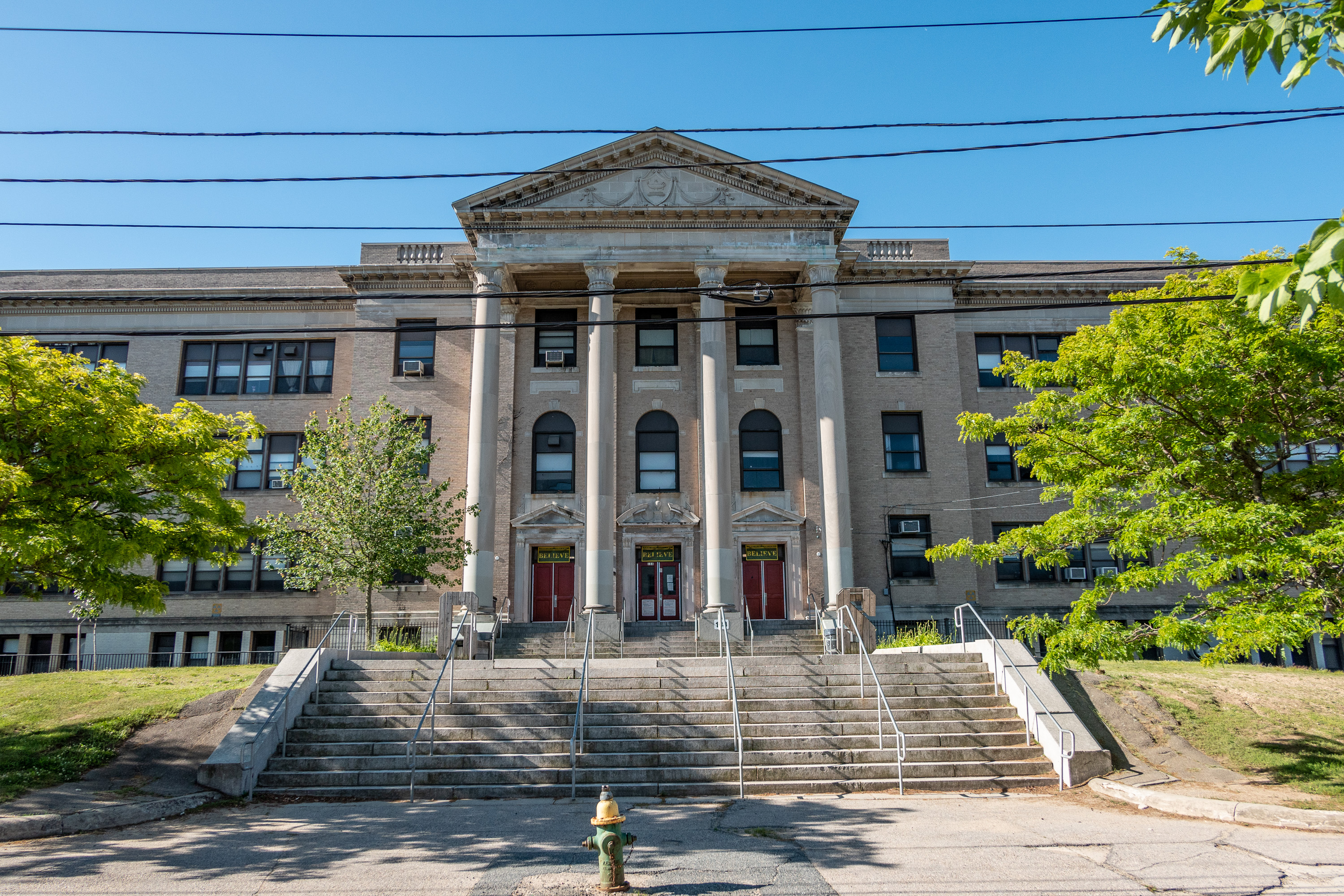 Gilbert Stuart Middle School, Providence RI. The Greek Revival style school was originally designed as a high school but over the years it has been used as an elementary school and now currently a middle school serving grades 6 to 8. Built 1930.